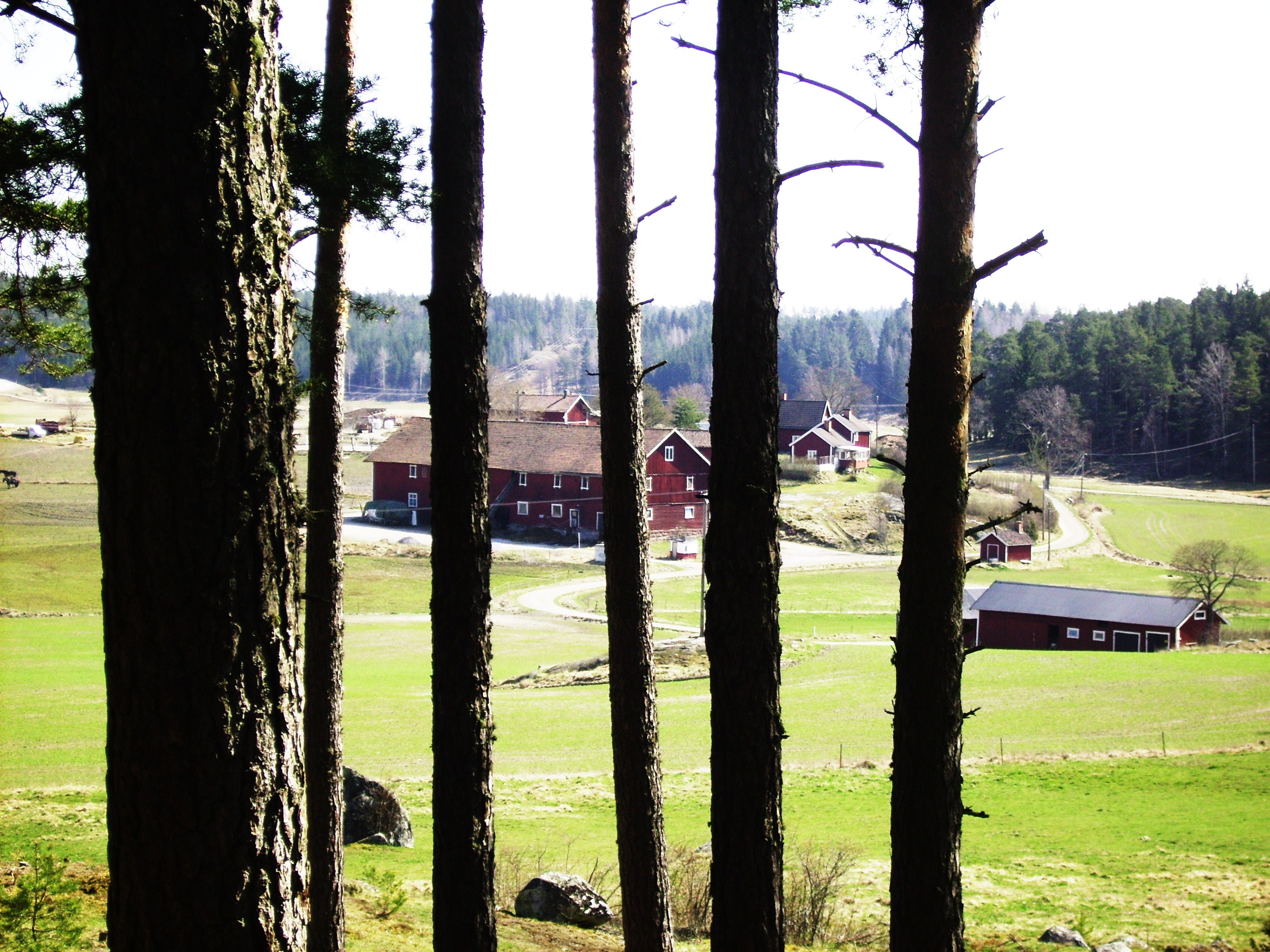 Picture of farmland in Södermanland (Gnesta)